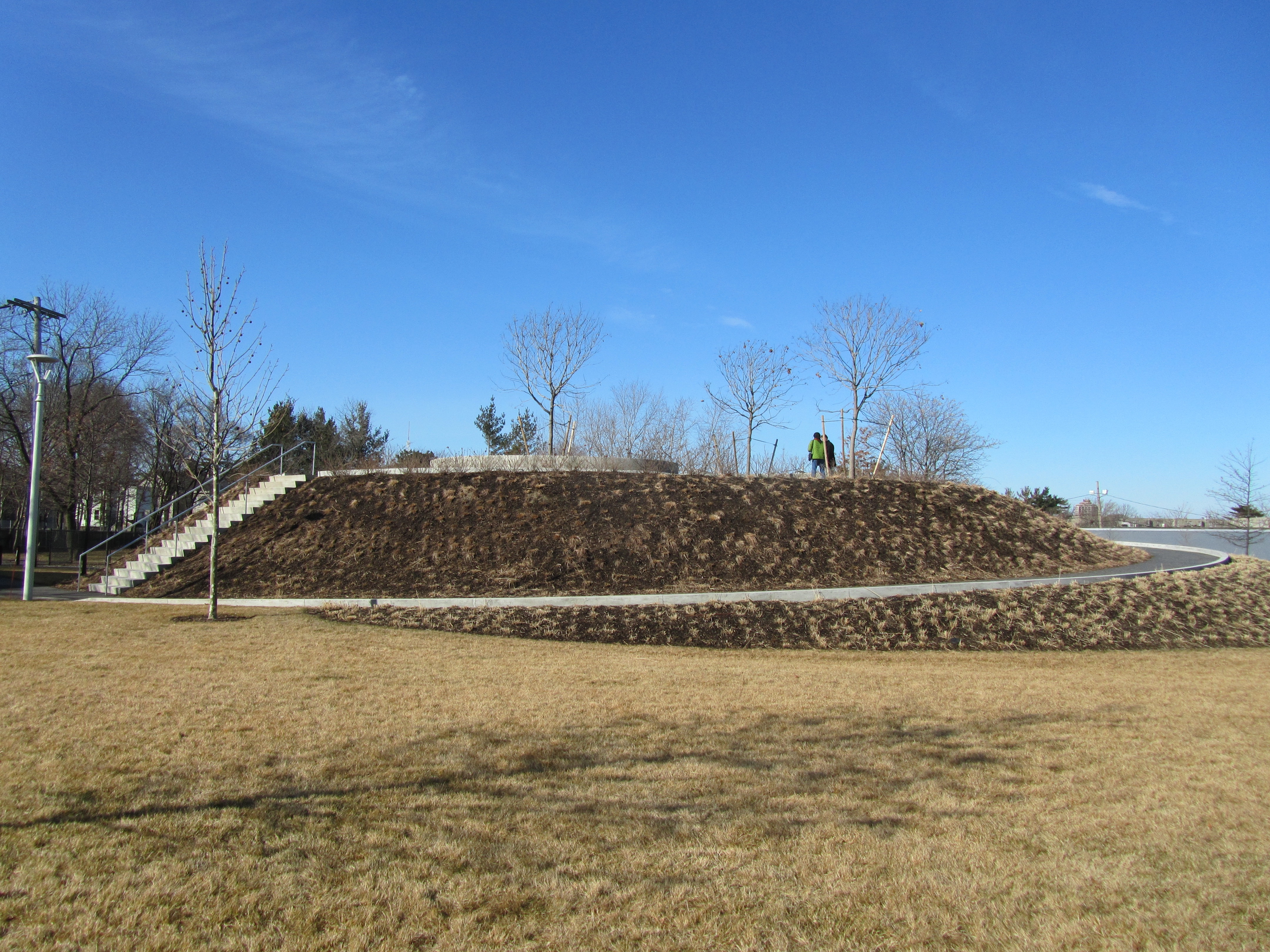 The hilltop at Raymond V. Mellone Park at Honan-Allston Public Library